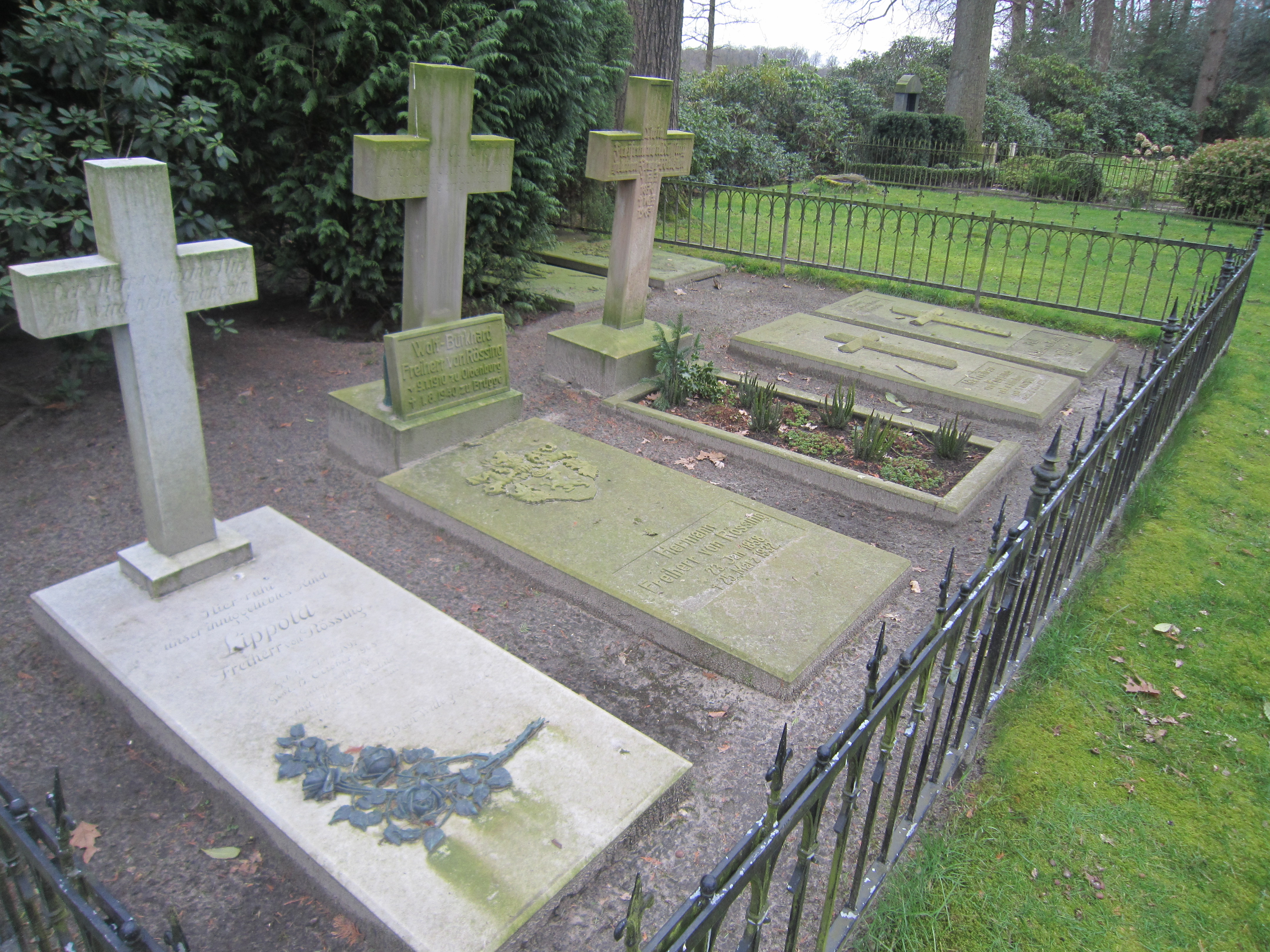 Graves of the old noble family of Rössing (Lage Line) on the cemetery of the Lutheran parish of Dinklage-Wulfenau